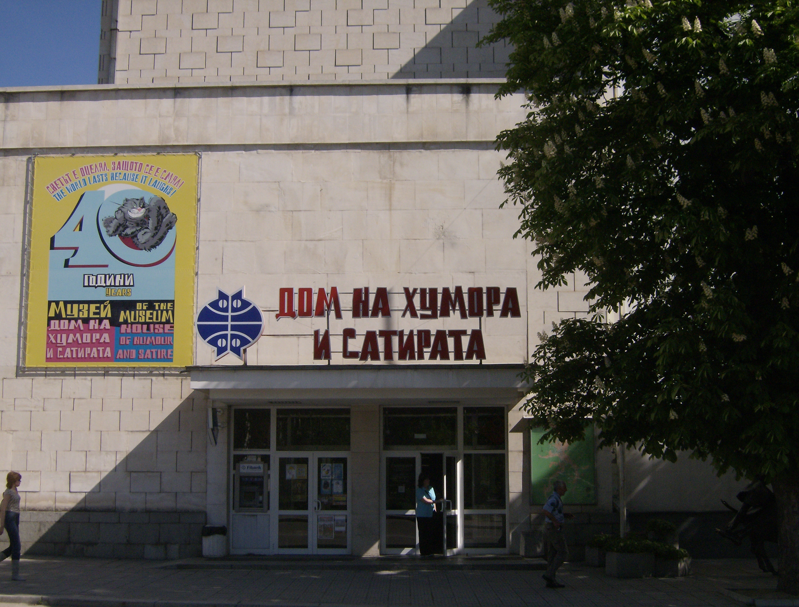 House of Humour and Satire, Gabrovo